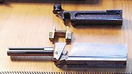 Extraction view of the Thompson M1928A1's bolt group include "H" type Blish-Lock piece.